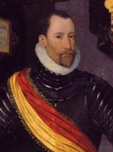 cropped version